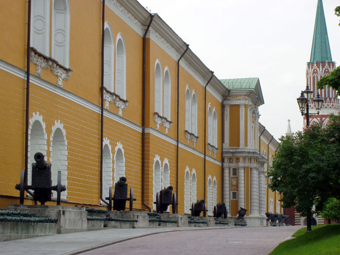 Moscow, the Kremlin. Kremlin Arsenal.